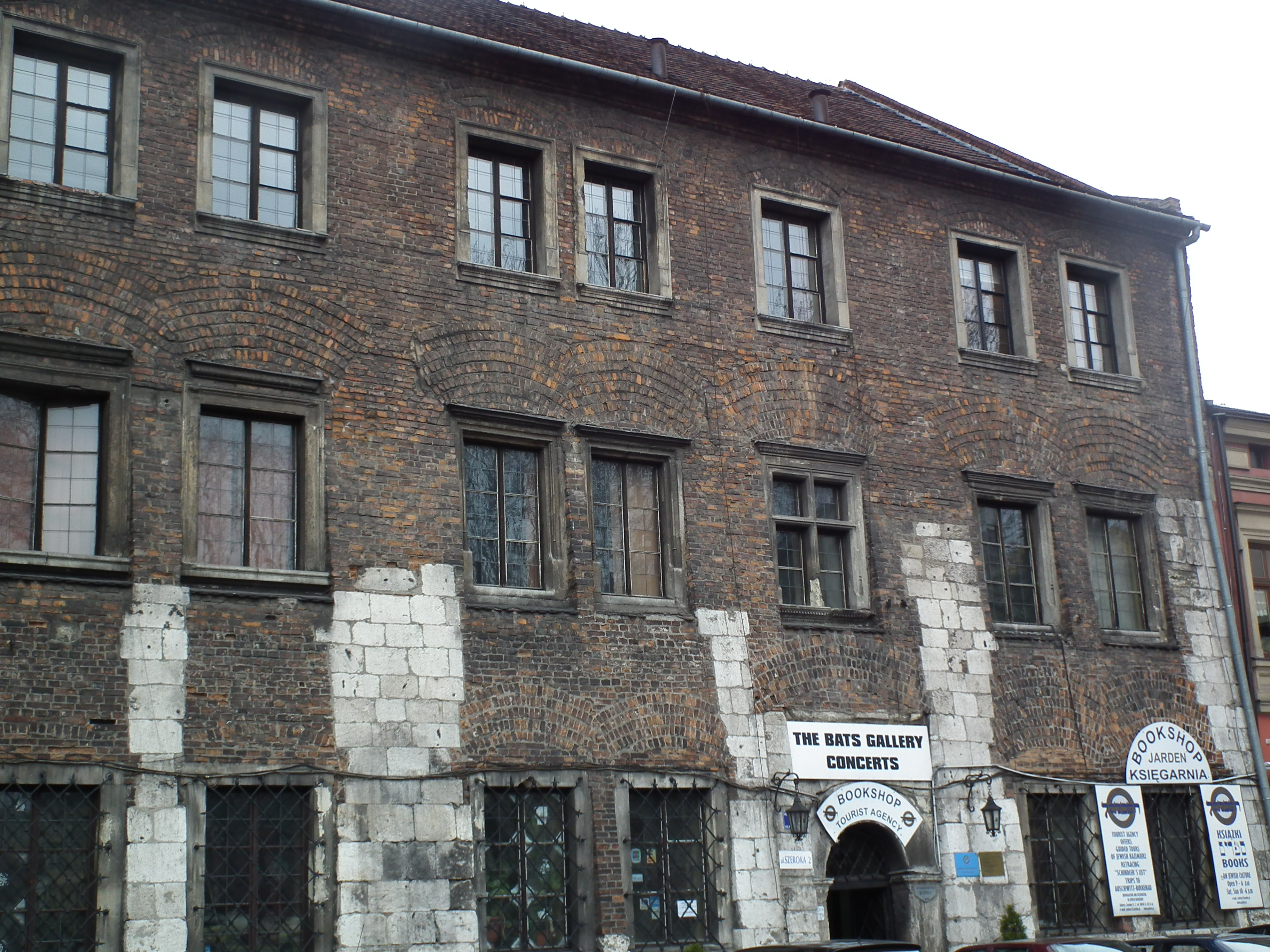 The Landaus' House in Kraków-Kazimierz - ul. Szeroka 2